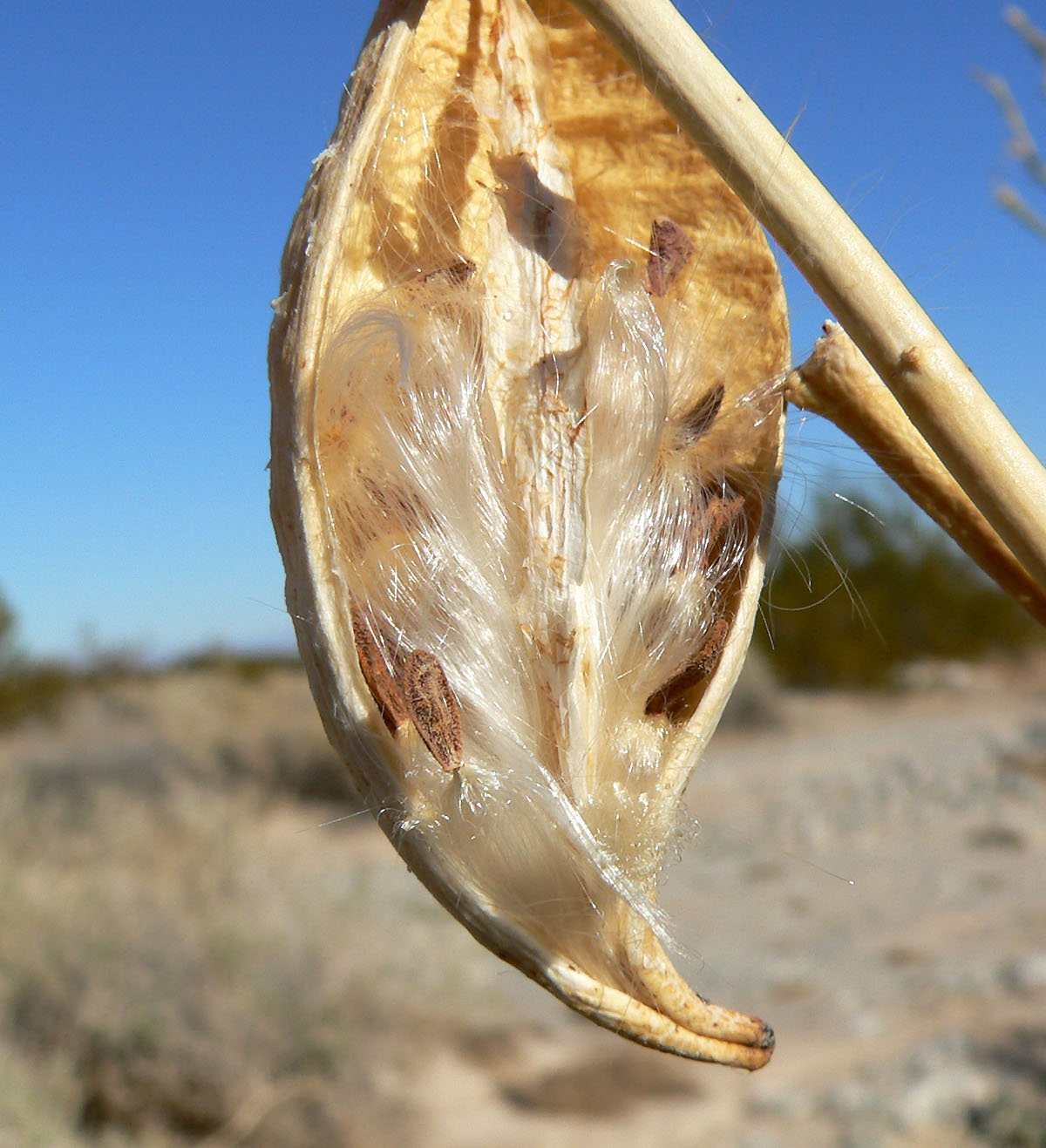 Asclepias subulata in wash east of the Dead Mountains near junction of Needles Highway and River Road, southern California